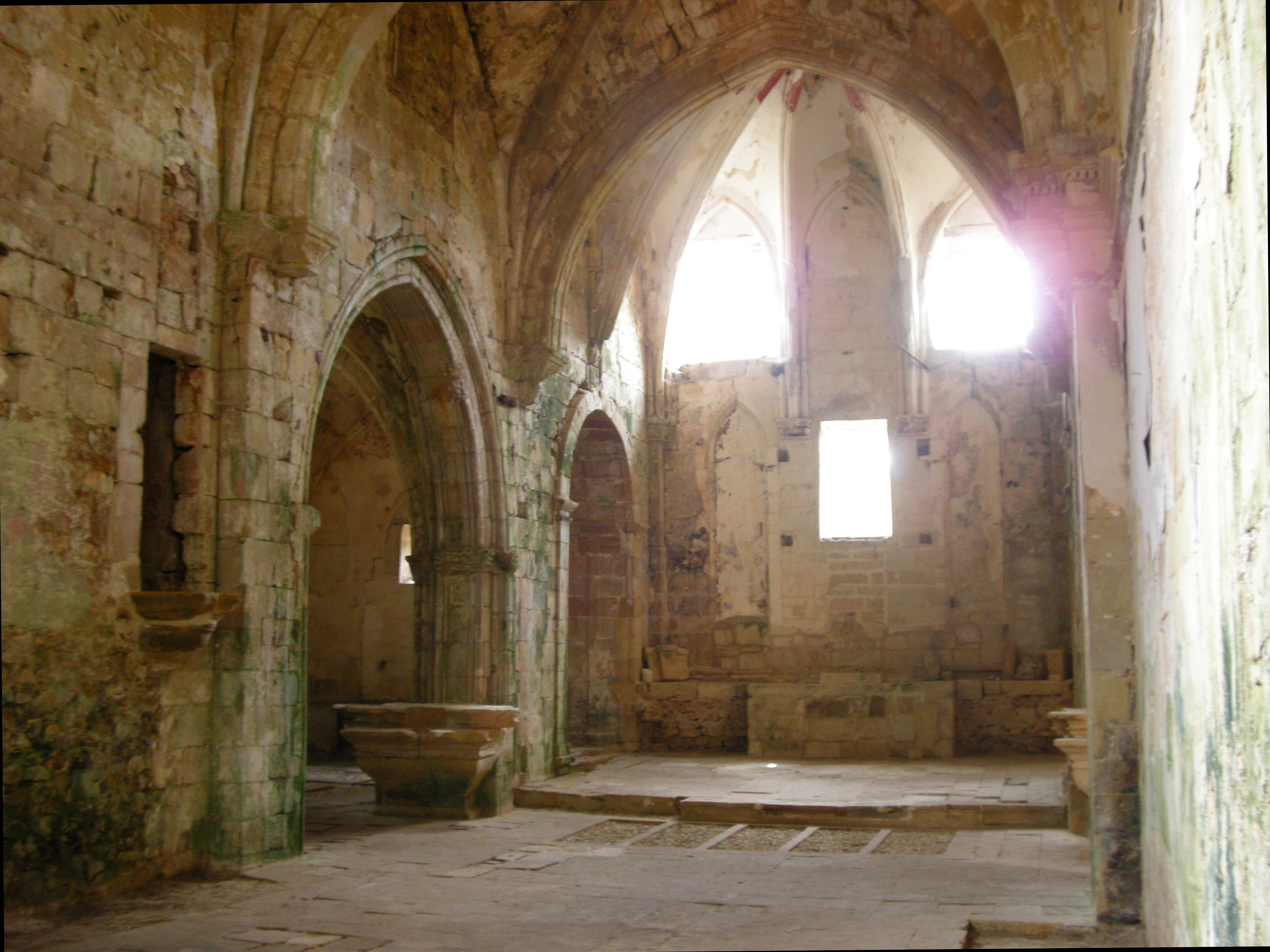 Altar de la Iglesia St. María de Rioseco